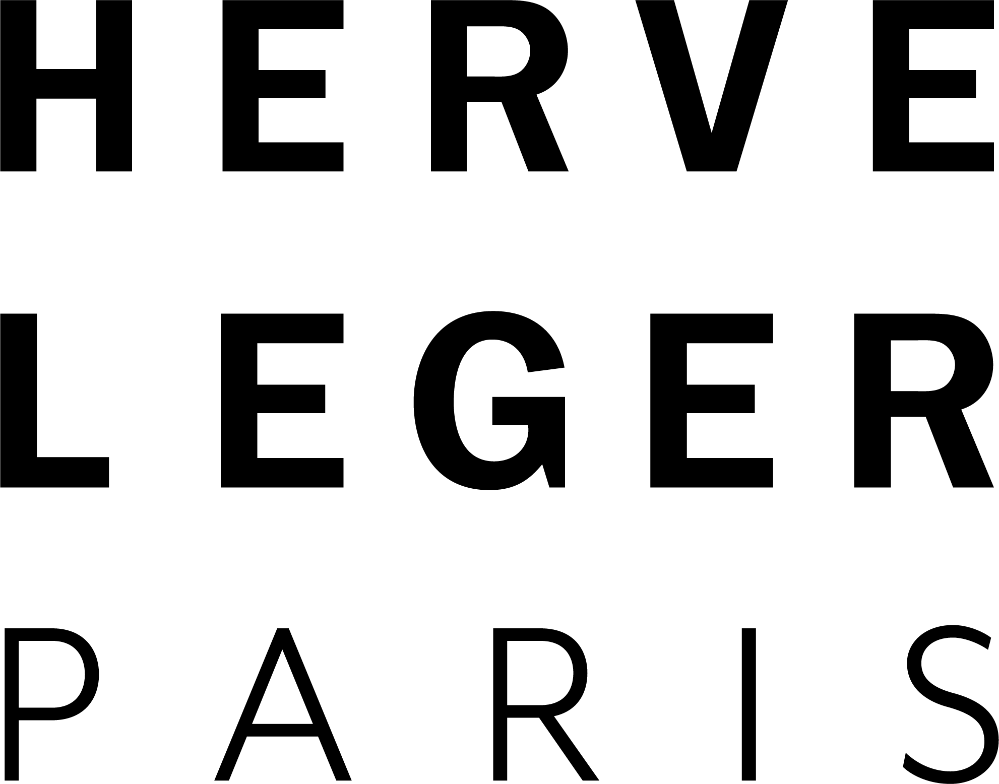 Herve Leger's 2019 updated logo